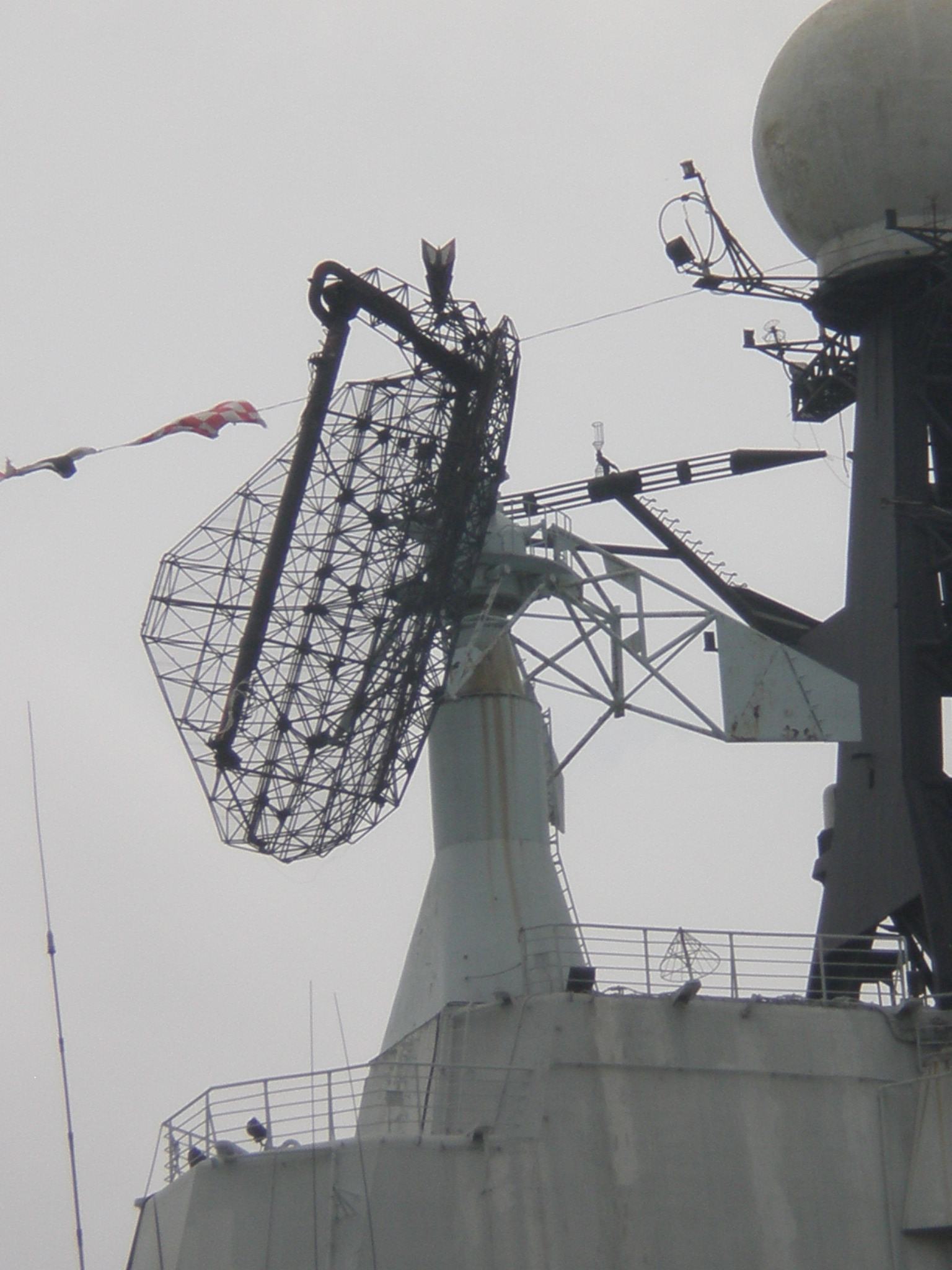 The top sail long range air search radar of the aircraft carrier Minsk, located at the Minsk World theme park in Shenzhen, PRC.